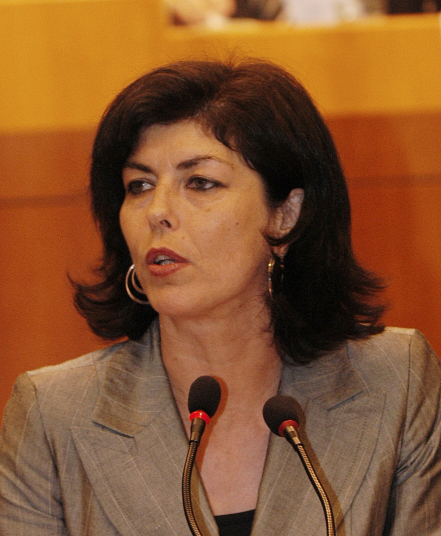 Joëlle Milquet, EPP Congress Brussels 4-5 February 2004